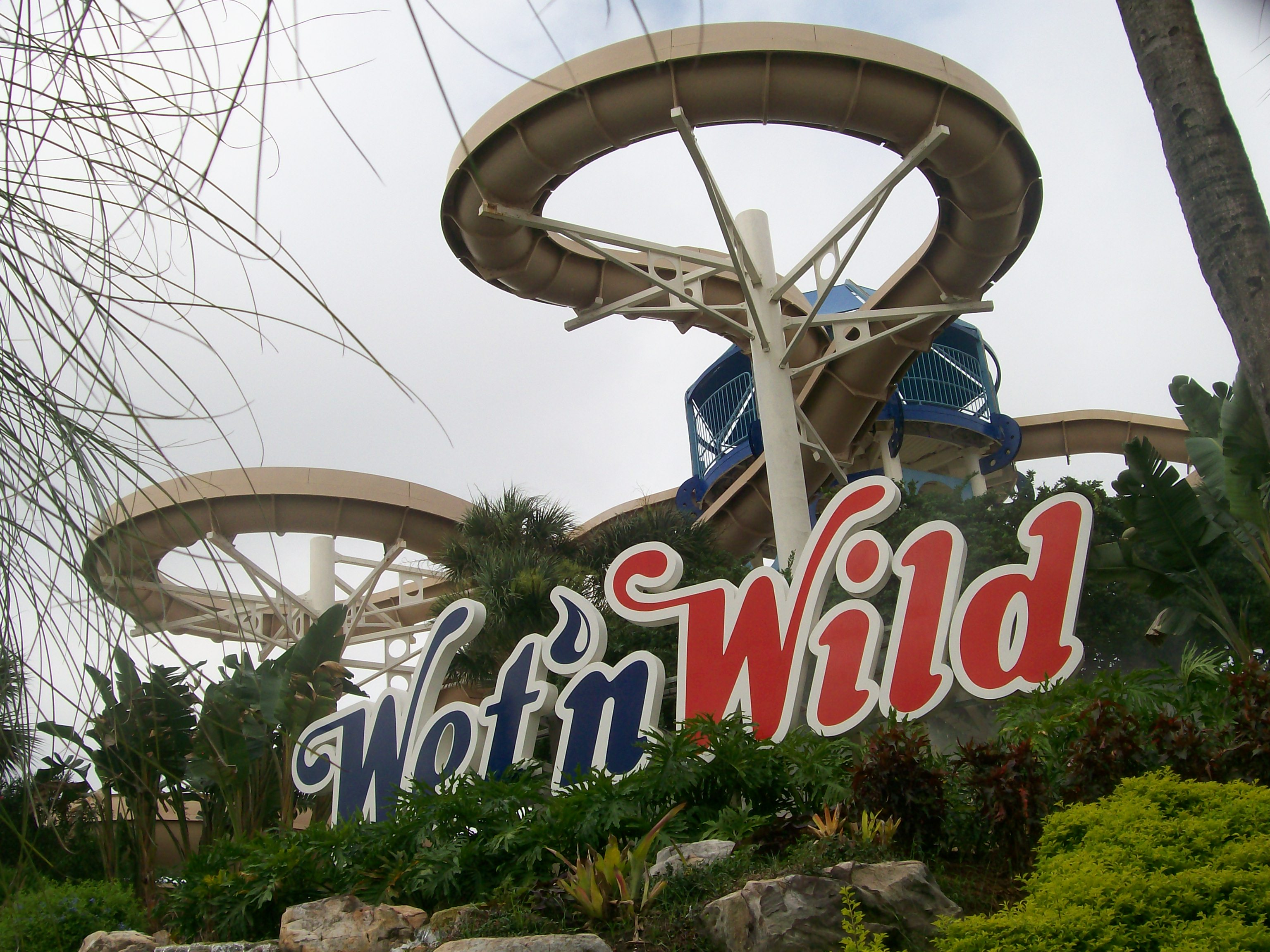 Wet n Wild waterpark Orlando